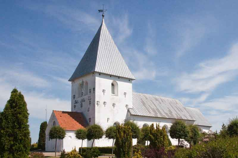 Hejls Kirke, church in the southern part of Denmark